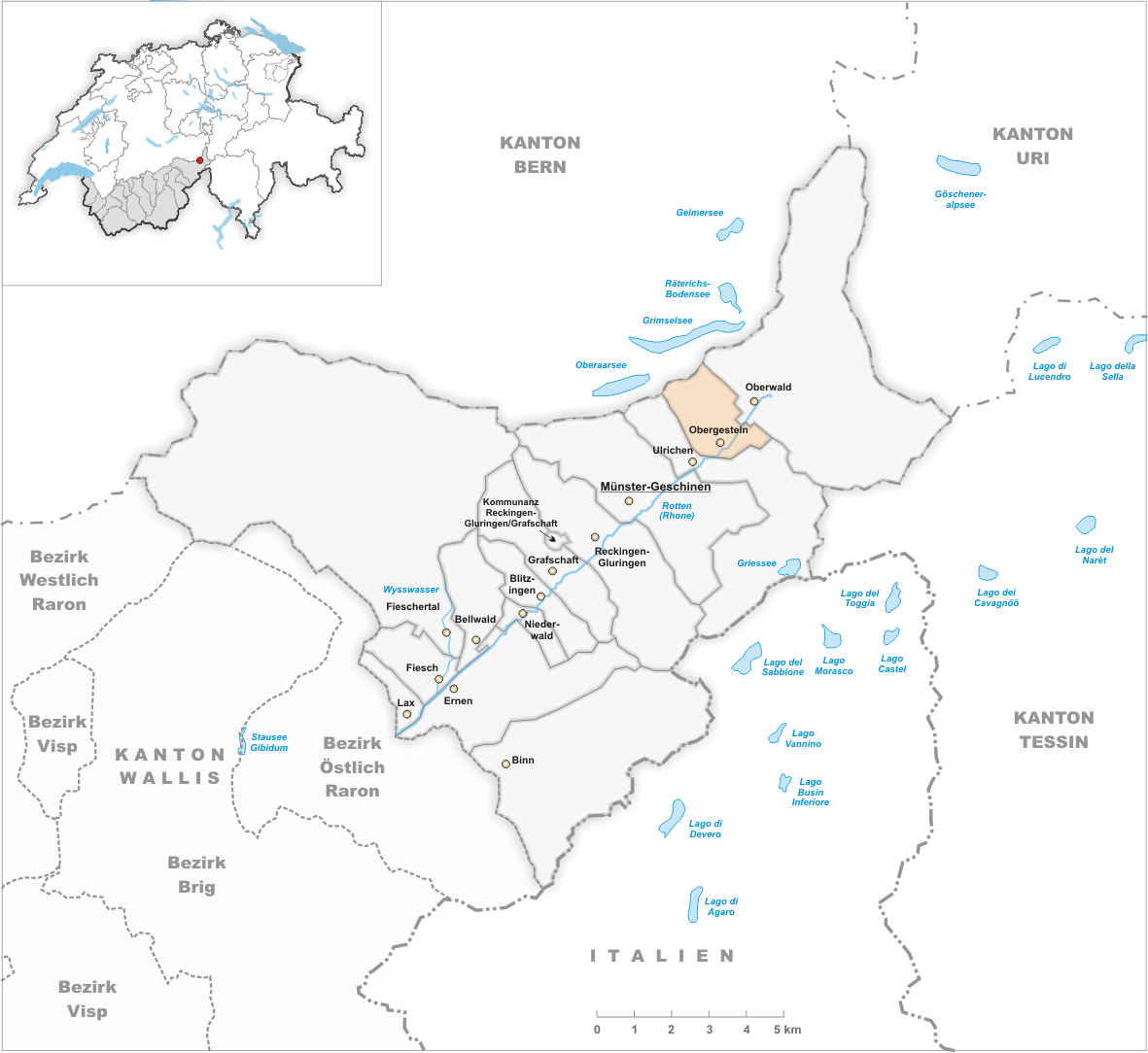 Municipality Obergesteln